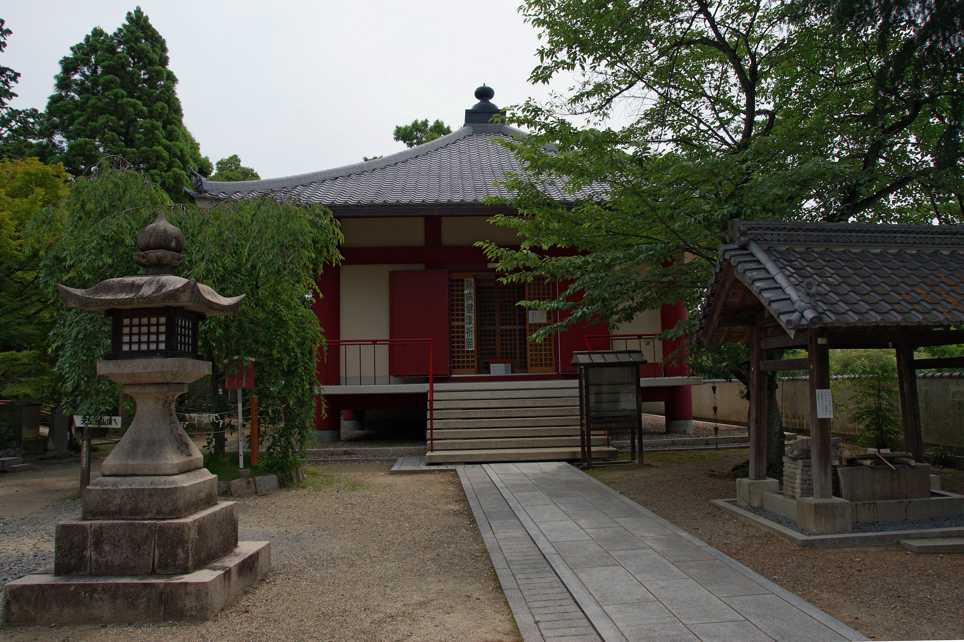 Hoshakuji in Oyamazaki-cho, Otokuni-gun, Kyoto prefecture, Japan